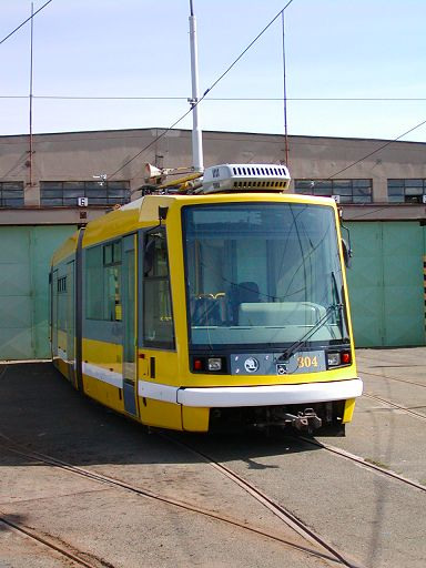 Škoda 03 T low floor tram in Plzen